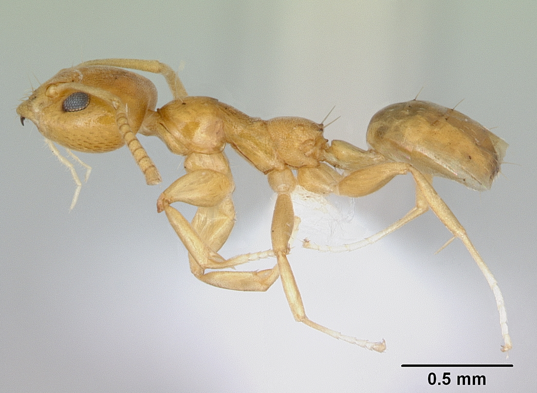 Profile view of ant Axinidris hypoclinoides specimen casent0003130.